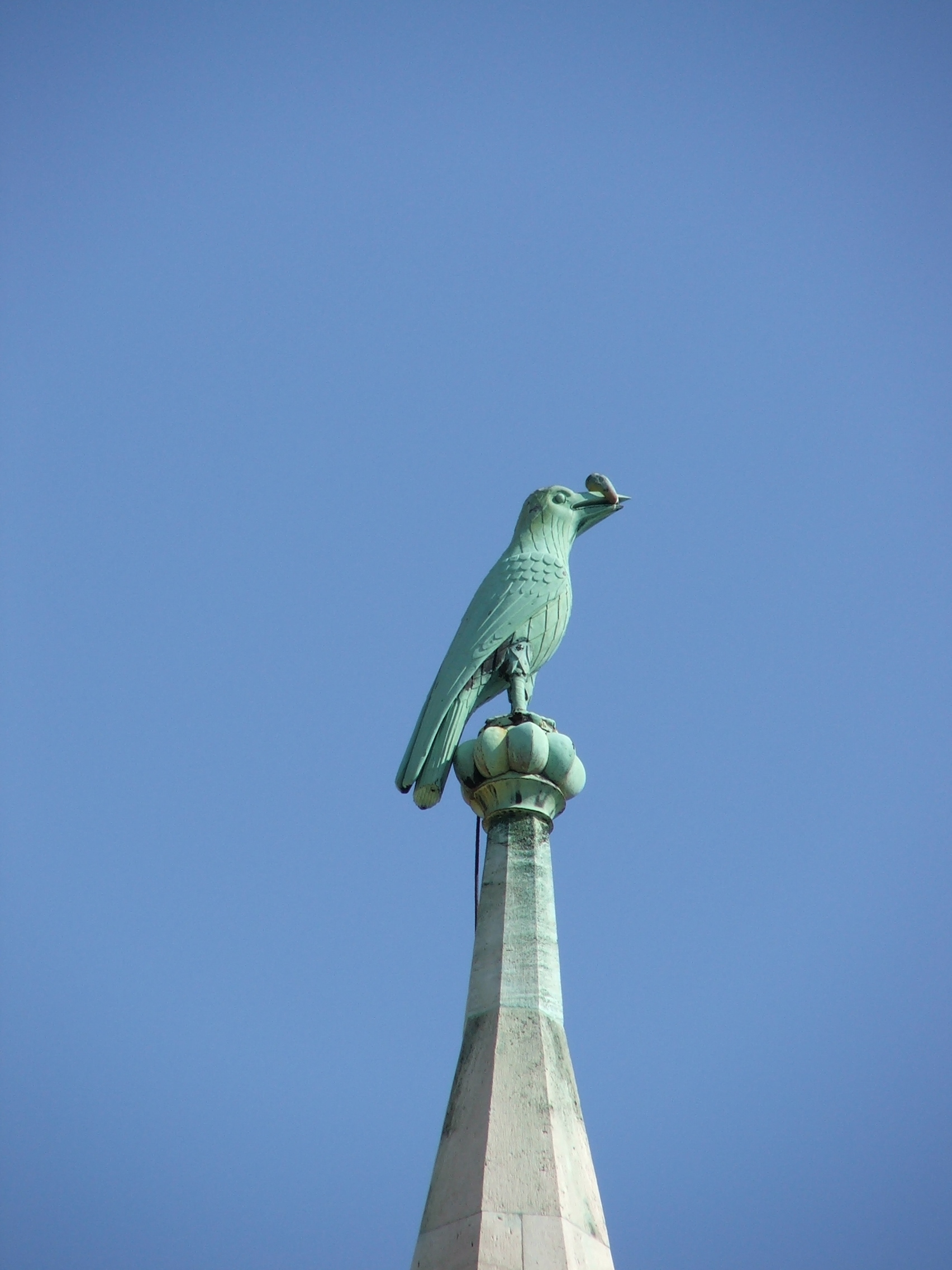 Raven of Matyas Corvinus